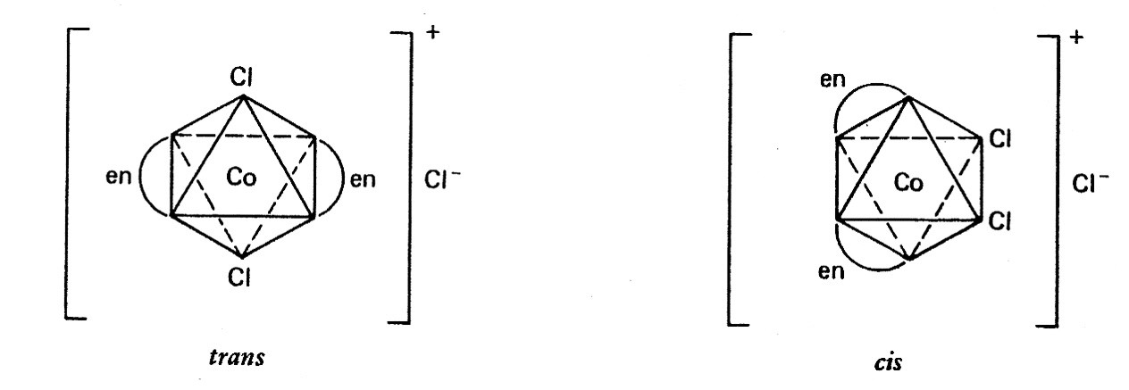 cis-, trans[CoCl2(en)2]Cl